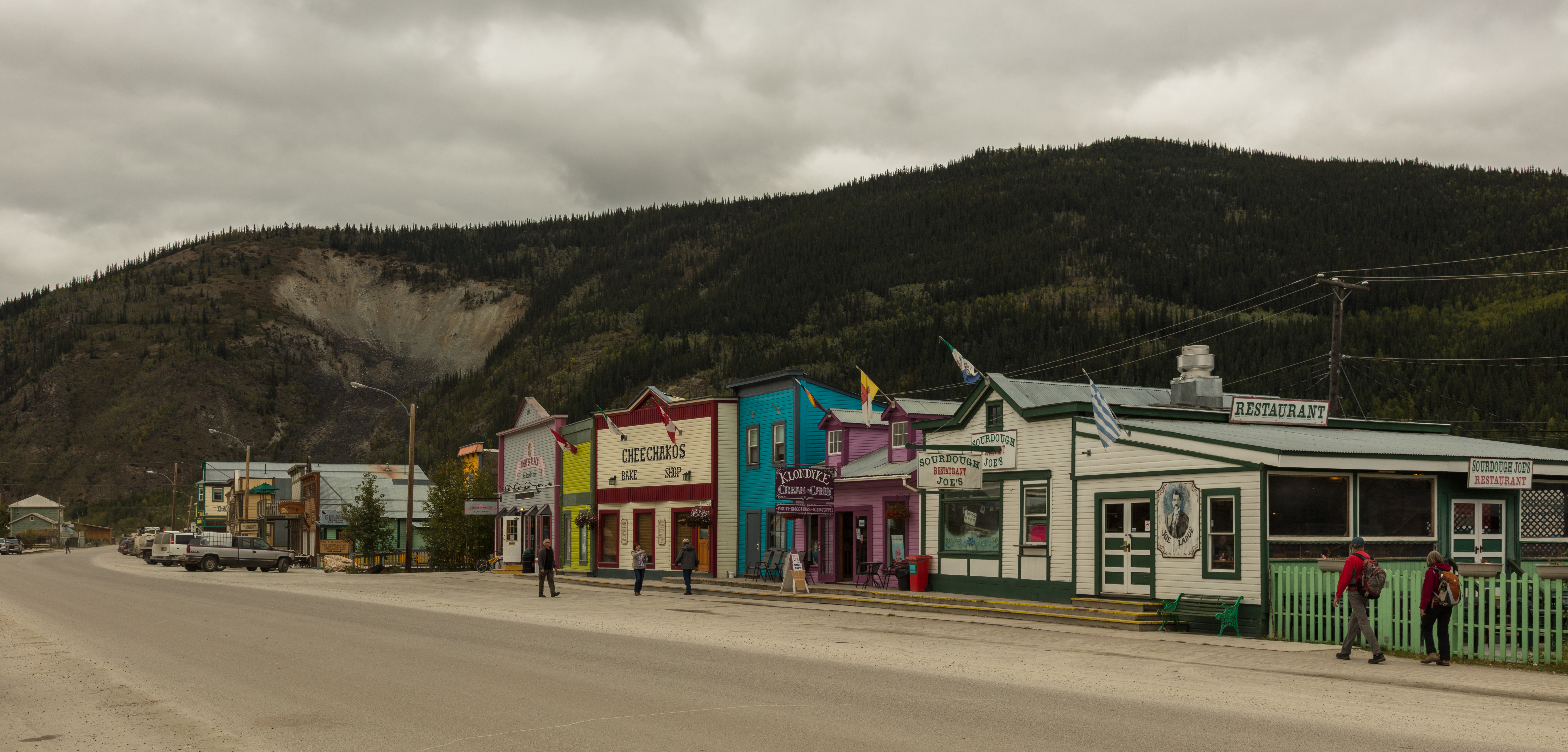 Shops in Front st, Dawson City, Yukon, Canada